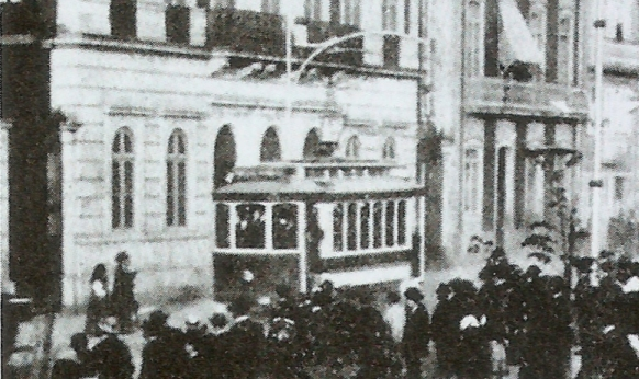 First electric trams in the city of Braga, in Portugal. This photograph was first published in the newspaper Ilustração Católica, on the 31st October 1914.